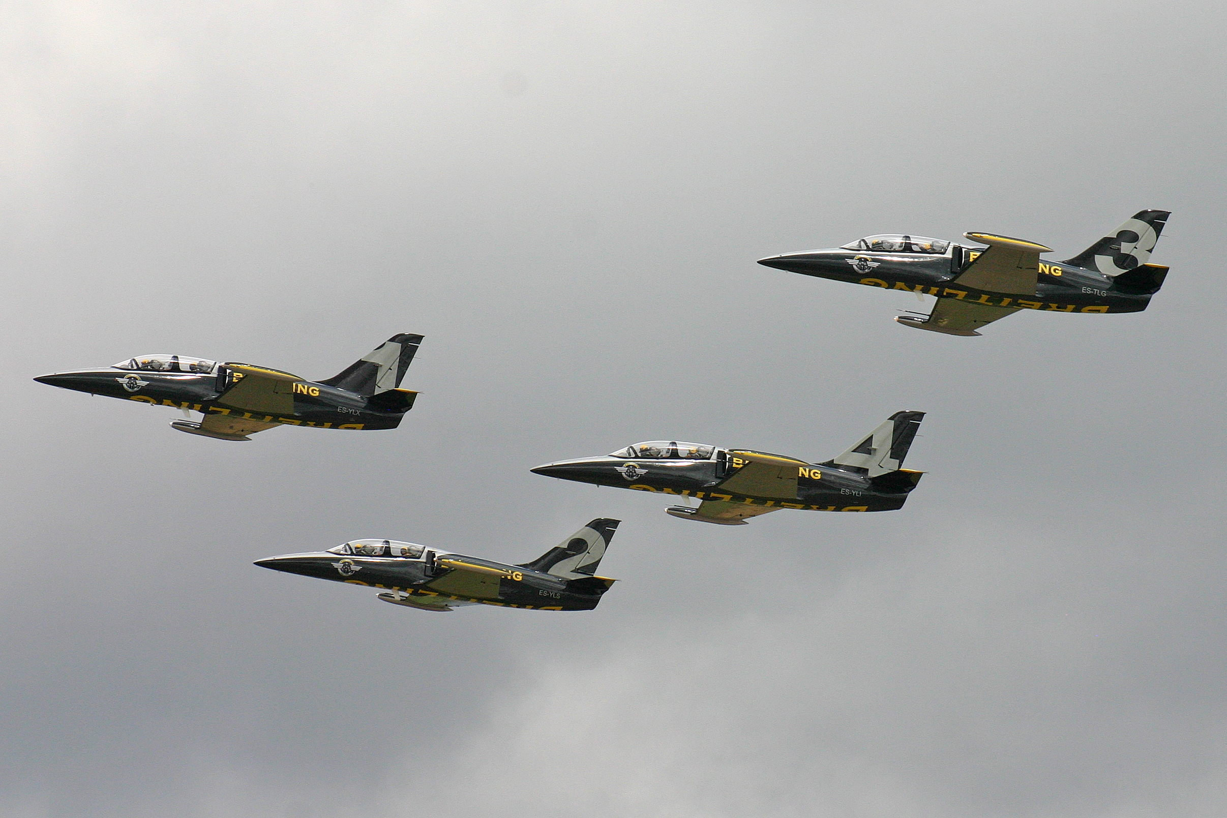 4x Aero L39C Albatross. '1' is ES-YLX and msn 432905. '2' is ES-YLS and msn 533638. '3' is ES-TLG and msn 131849. '4' is ES-YLI and msn 433142. Departing RIAT Fairford. 18-7-2011